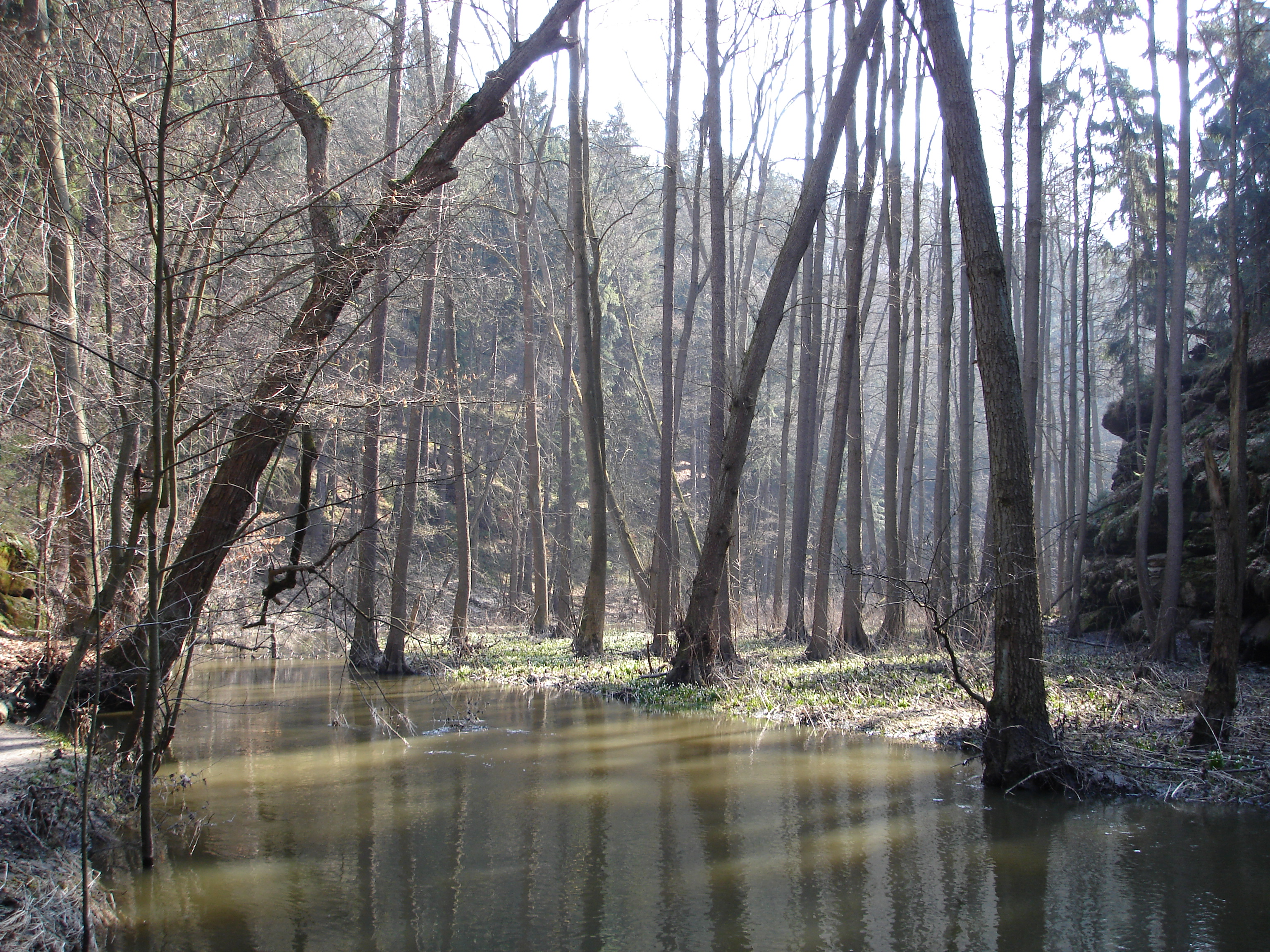 Peklo near Česká Lípa, czech republic